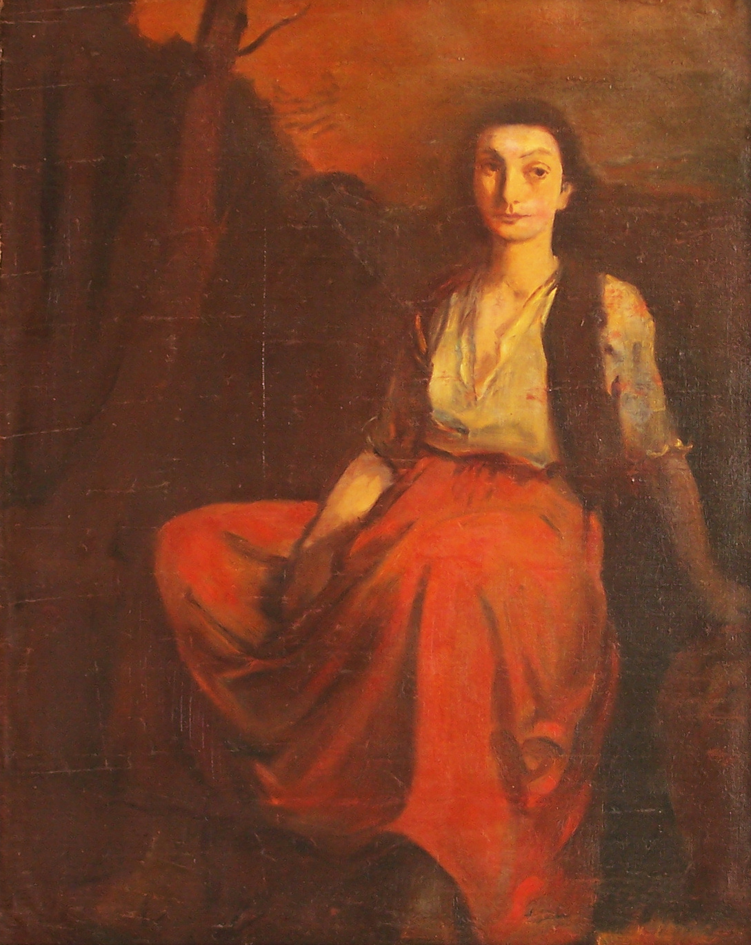 Gipsy.